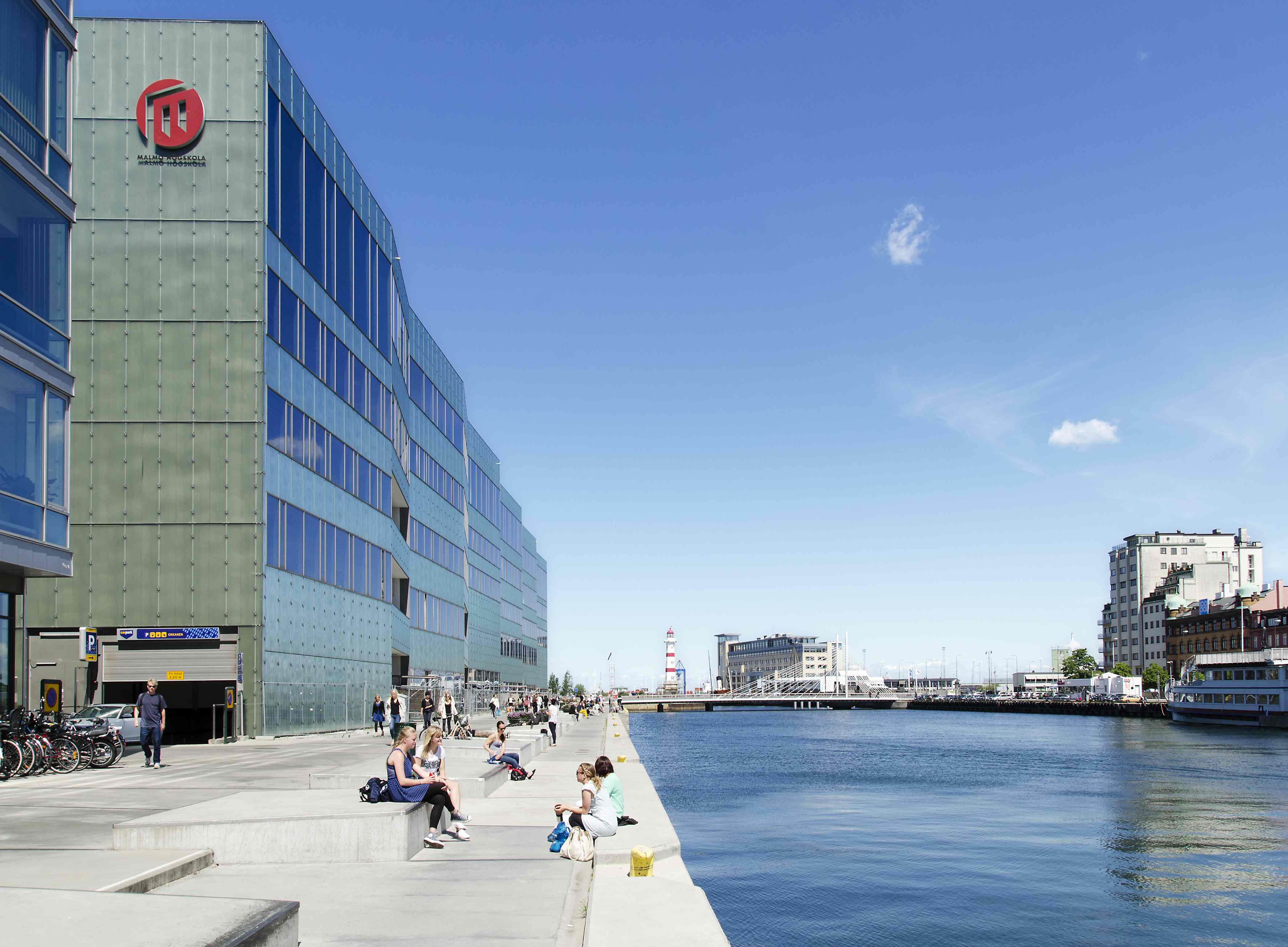 Outside the building Orkanen, Malmö University